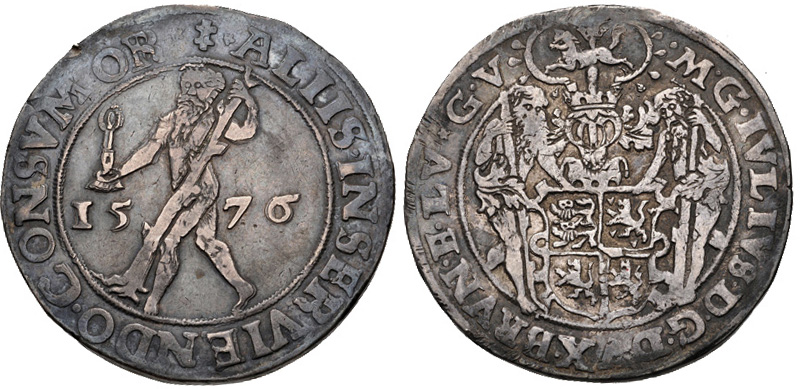 GERMANY, Braunschweig-Wolfenbüttel. Julius. Duke, 1568-1589. AR Taler (41mm, 28.91 g, 2h). Dated 1576. Coat-of-arms with wildmen supporters, surmounted by helmet and smaller coat-of-arms / Wildman advancing left, holding candle and uprooted tree. Davenport 9060. Near VF, toned, rim nick. Welter 576.